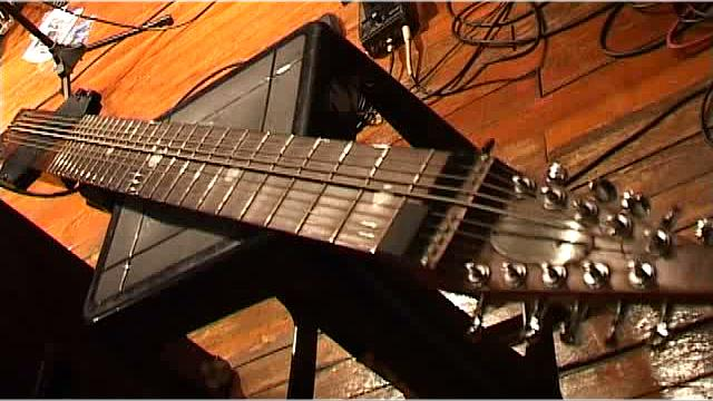 Chapman Stick